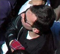 A photo of Vladimir Arutyunian, the attempted assassin of US President George W. Bush, from the FBI.